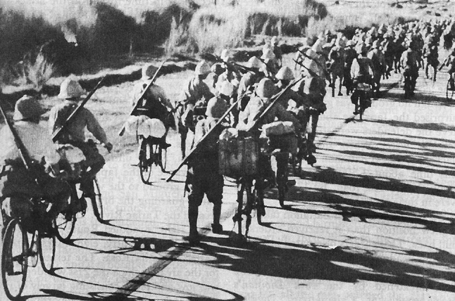 Bicycle-mounted Japanese Troops on the Battle of the Philippines (1941-42)